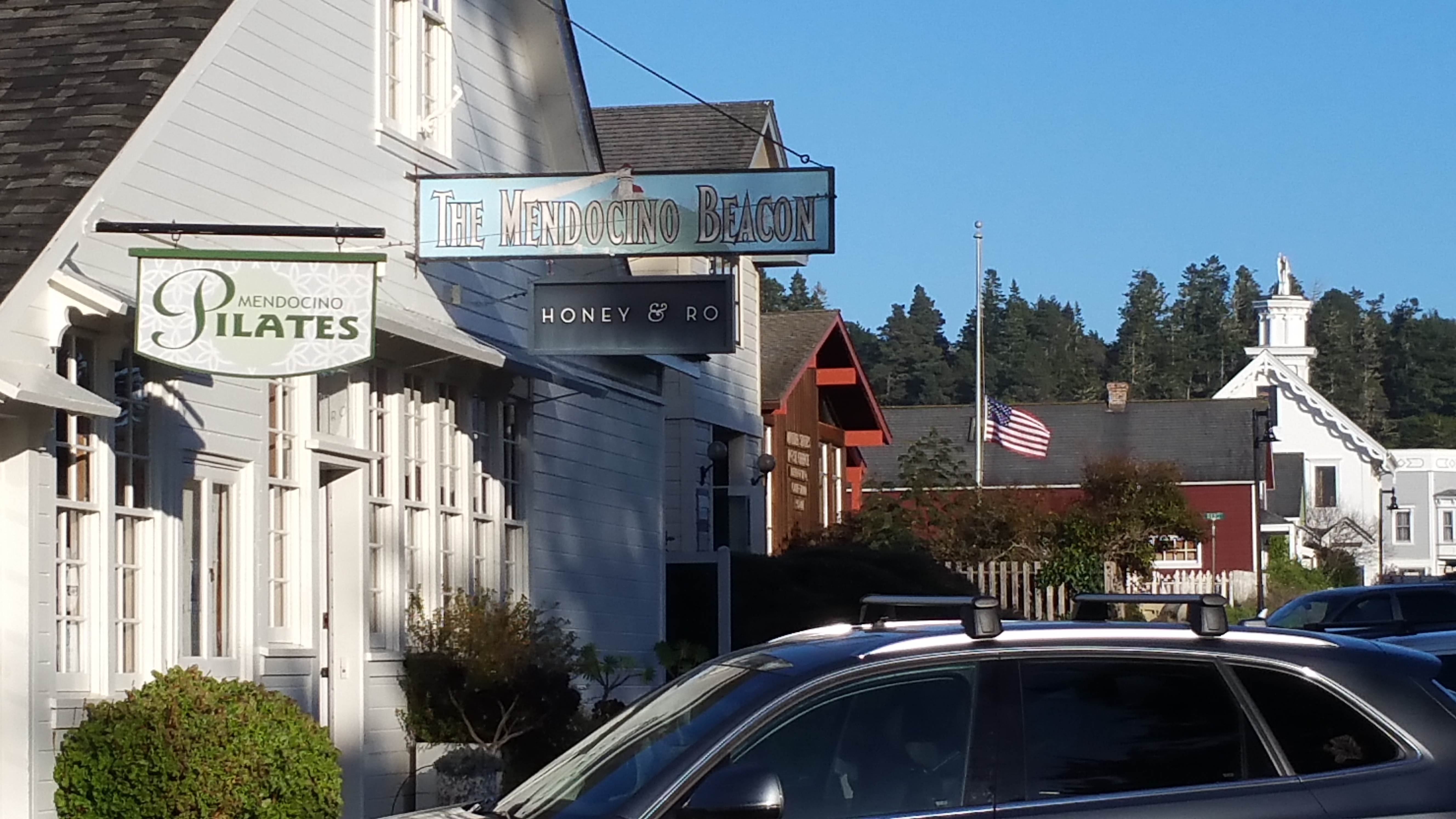 The former location of the Mendocino Beacon newspaper, at 45062 Ukiah St., Mendocino, California. Immediately behind it is the post office; the white building in the background is Masonic Hall.